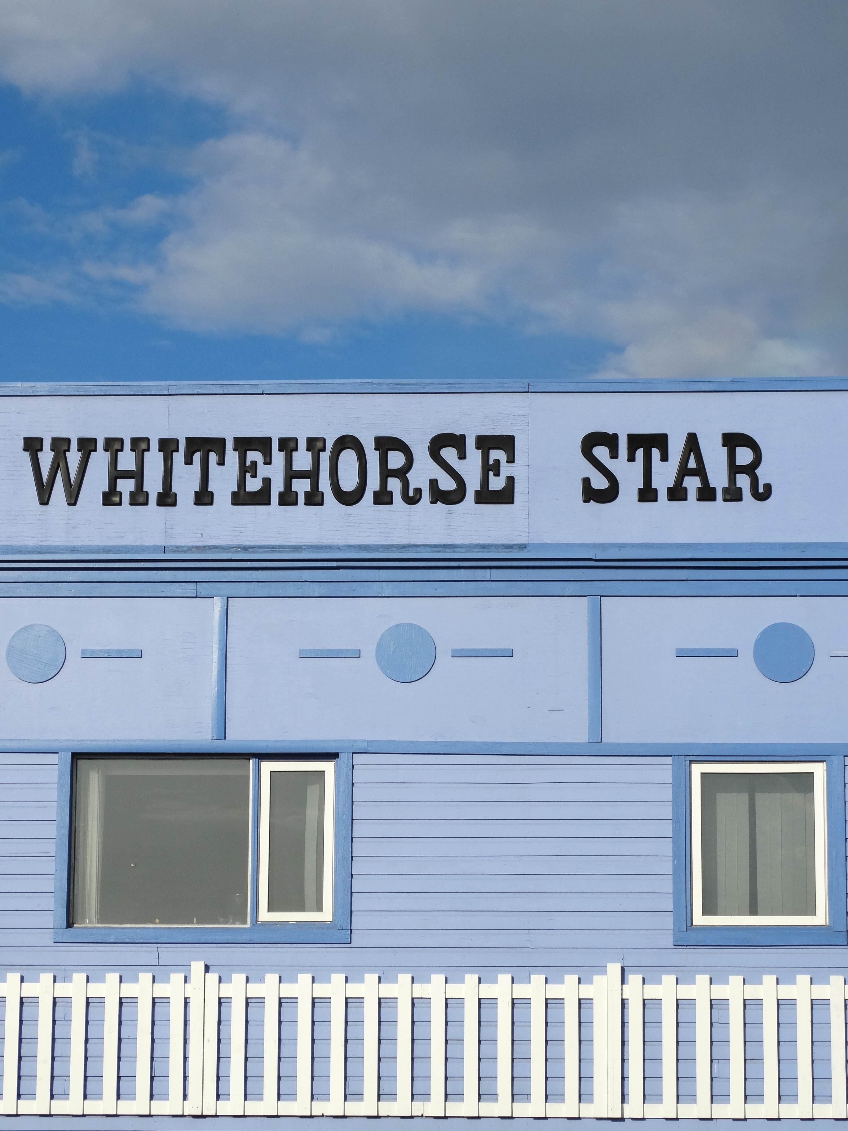 Facade of Whitehorse Star Building - Whitehorse - Yukon Territory - Canada